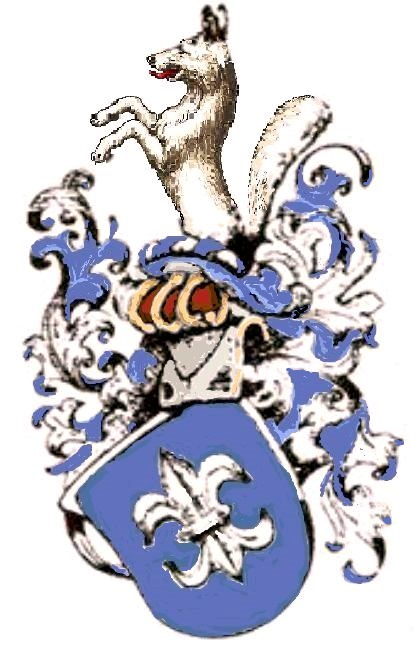 Reconstructed version, Reinken (Reinecke) Coat of arms, in use from 1650